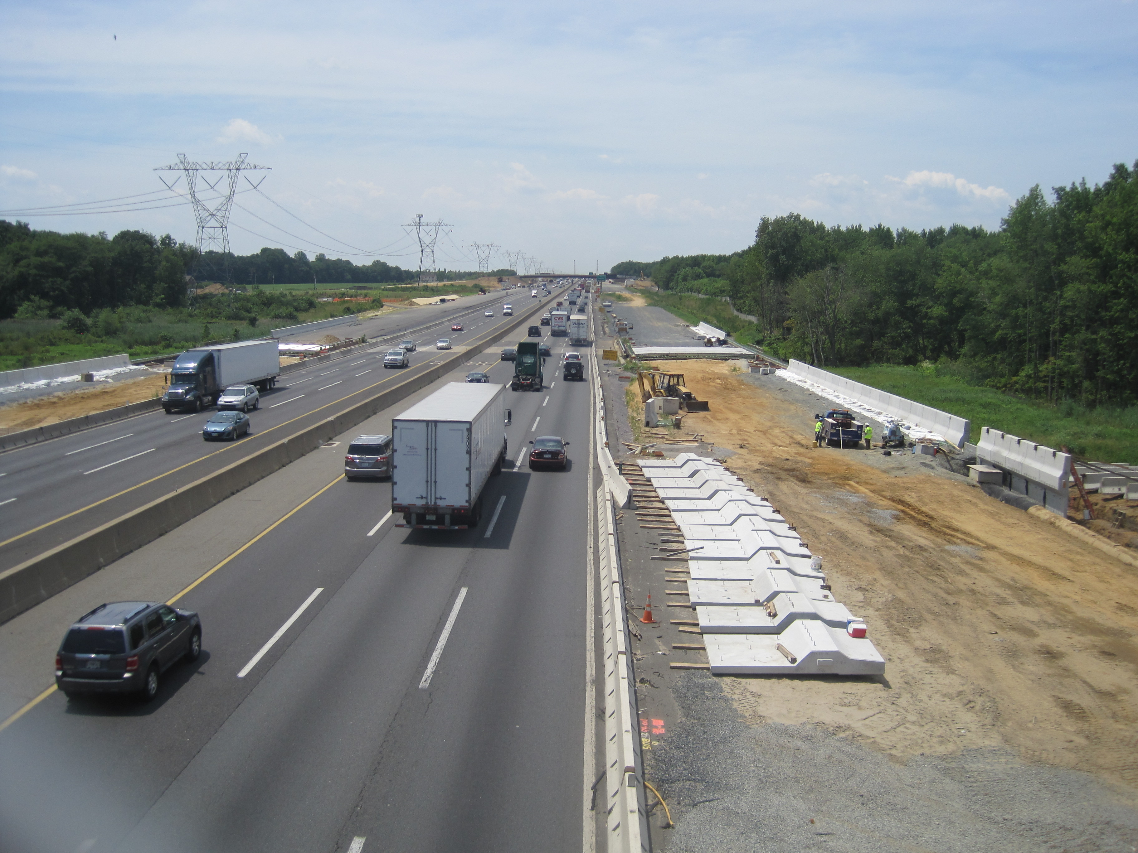 Photo of the ongoing widening of the New Jersey Turnpike from Exits 6 to 9. This shot is taken from the Windsor Road bridge looking south in Robbinsville Township, New Jersey. Note: The "smudge" on the lower left-hand corner of the photo is from the chain-link barrier on the bridge.